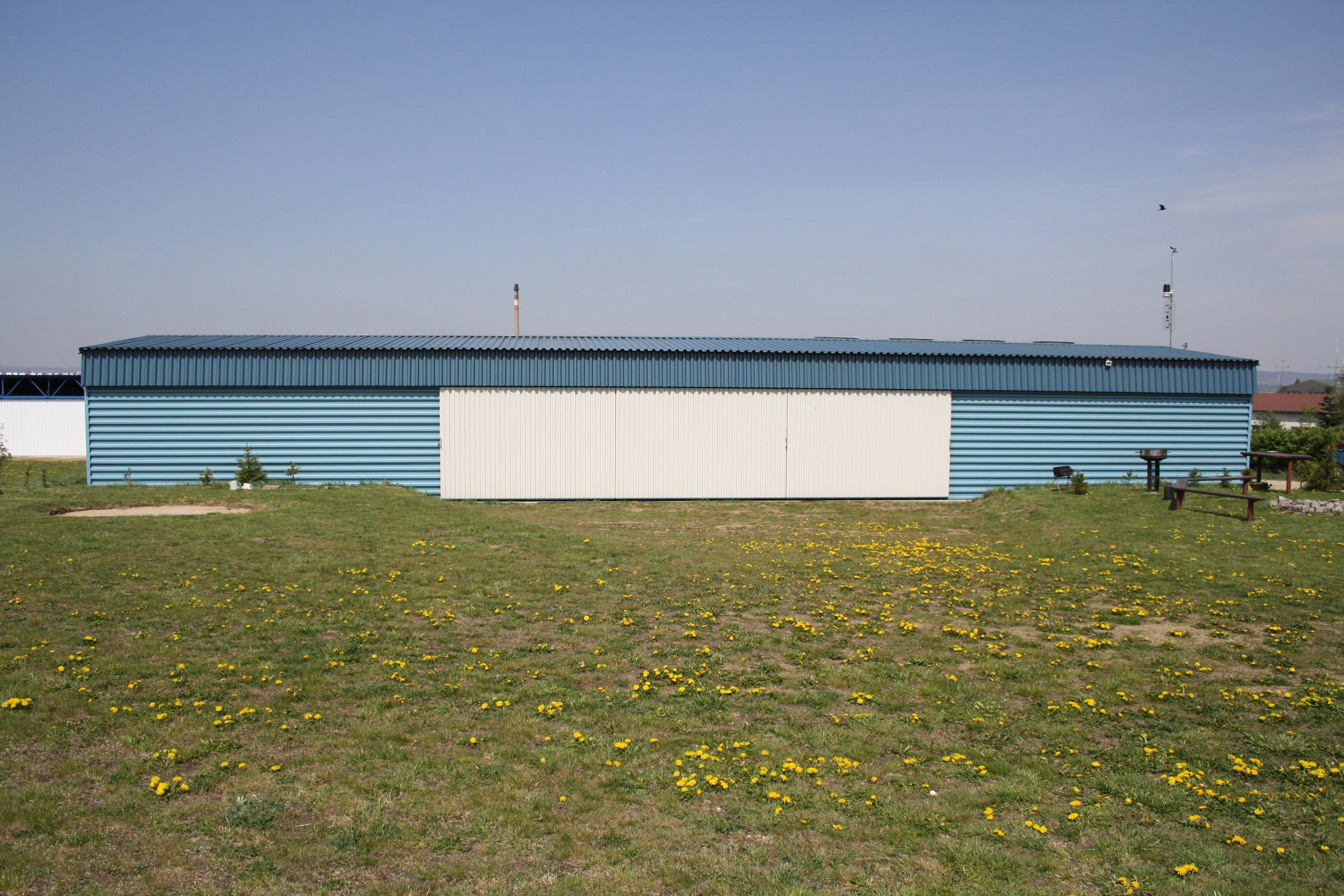 Hangar of Třebíč Airport in Třebíč, Czech Republic.